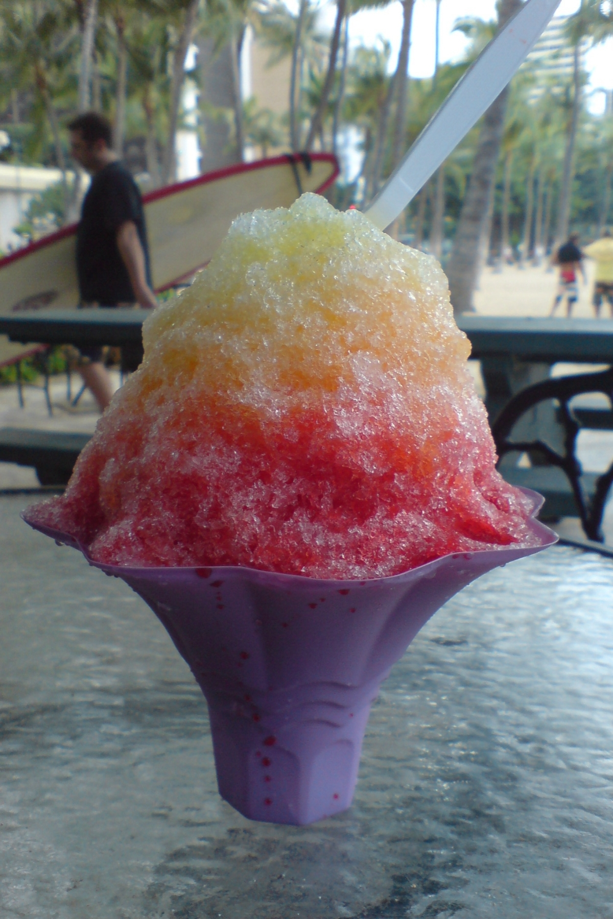 Hawaiian shaved ice.